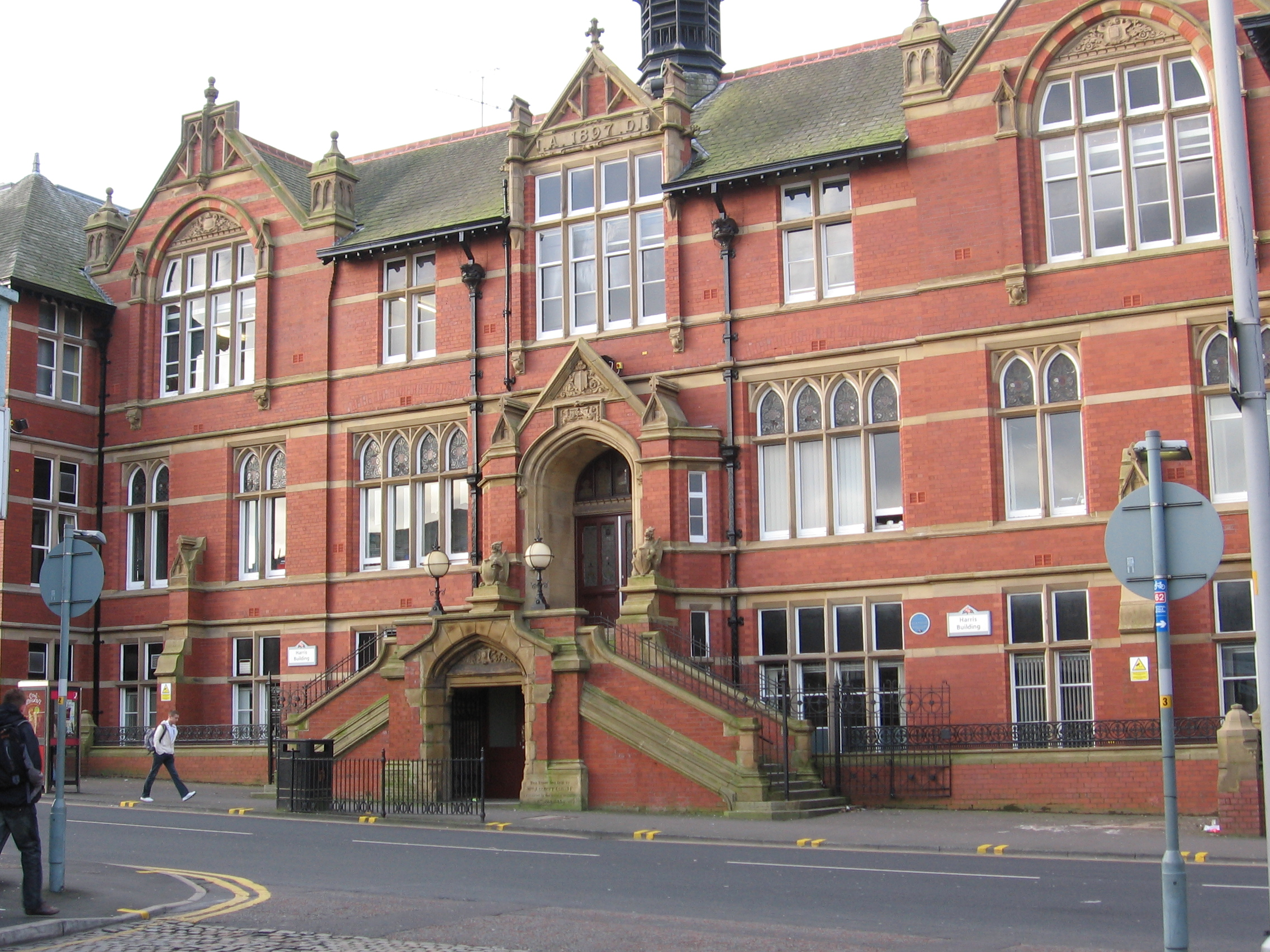 I, fetler, took this photograph of the University of Central Lancashire's Harris building.